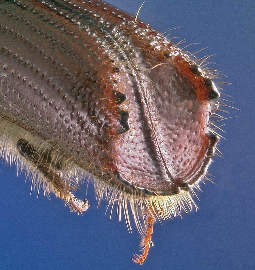 Ips emarginatus posterior, note concave elytra